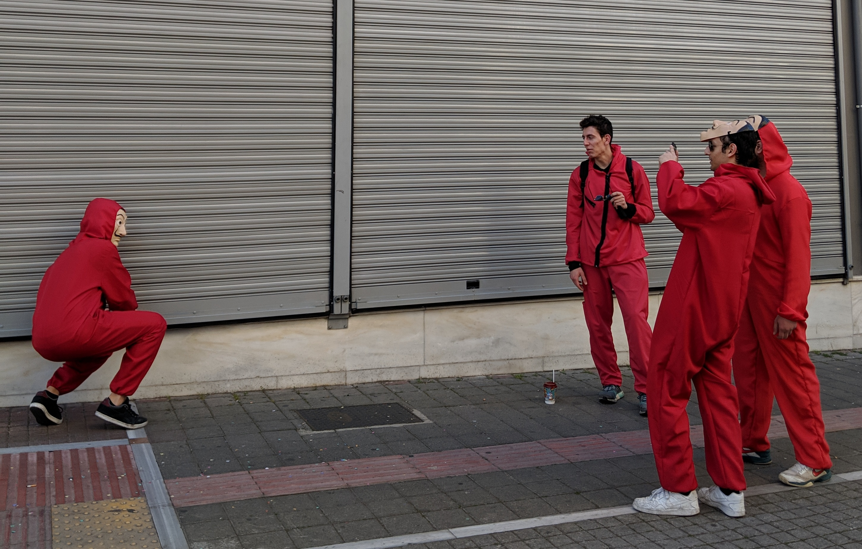 People with costumes of TV series "La Casa de Papel" next to an Alpha Bank, at Patras Carnival.